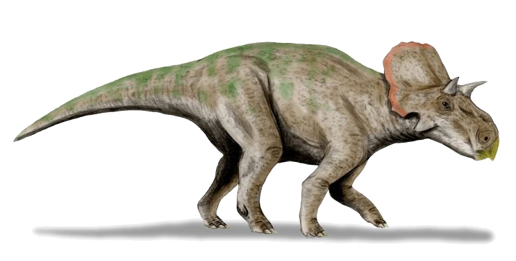 Avaceratops lammersi, a ceratopsian from the Late Cretaceous of North America, pencil drawing, digital coloring